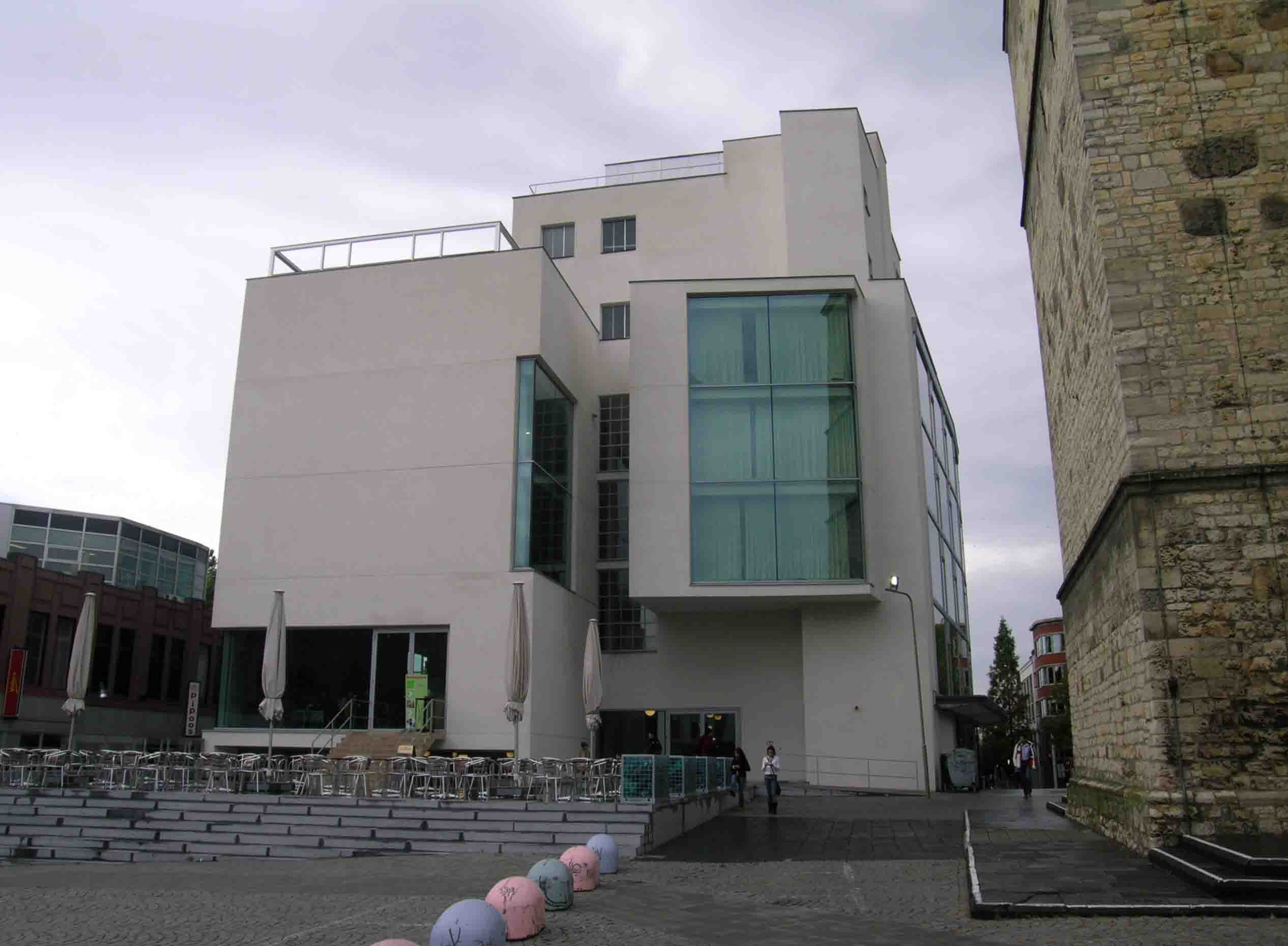 Photograph made and uploaded by Dirk van der Made The back (south) side of the Glaspaleis